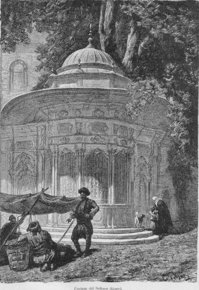 drawings from trvallers guide constantinopole c1878